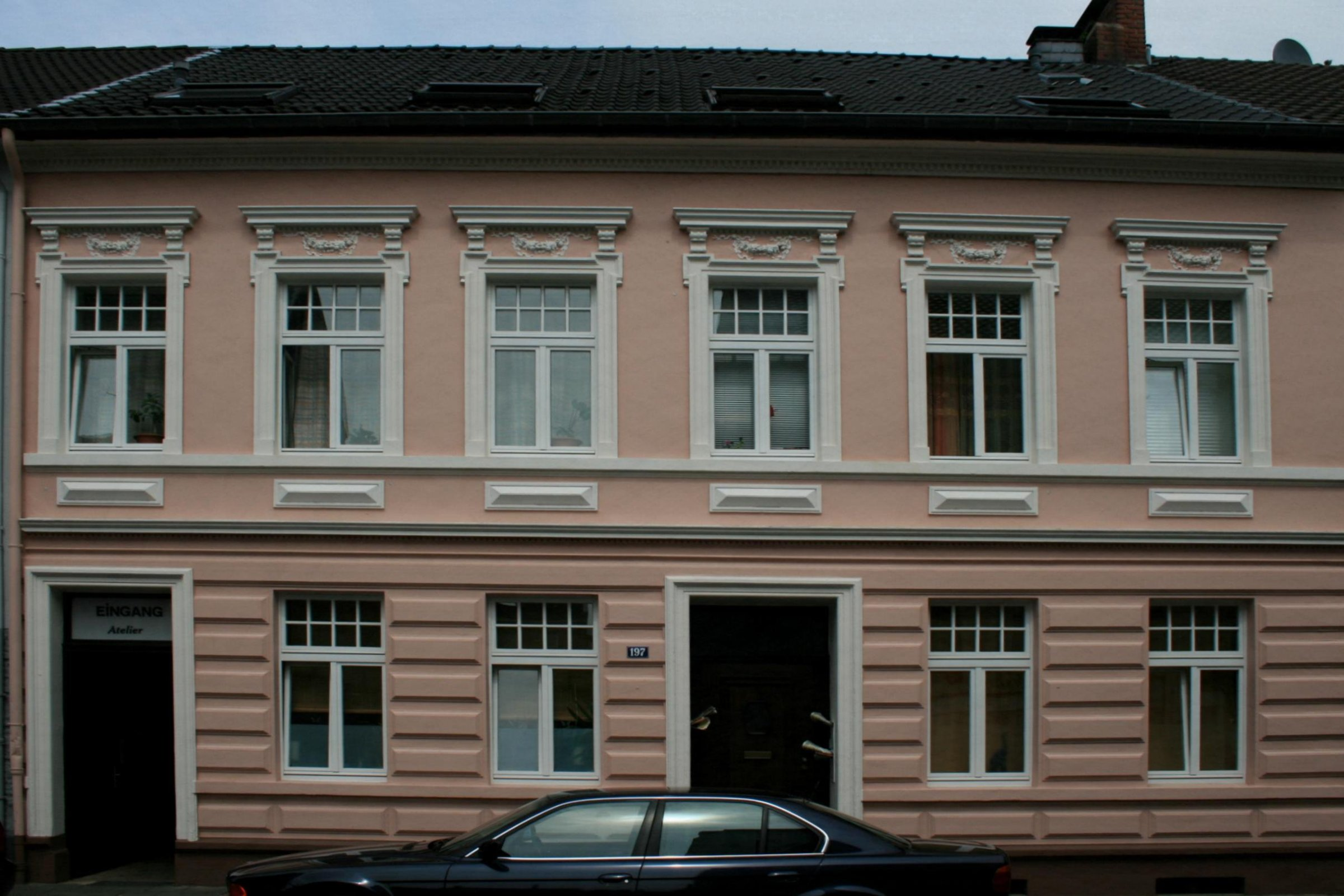 Cultural heritage monument No. M 037 in Mönchengladbach